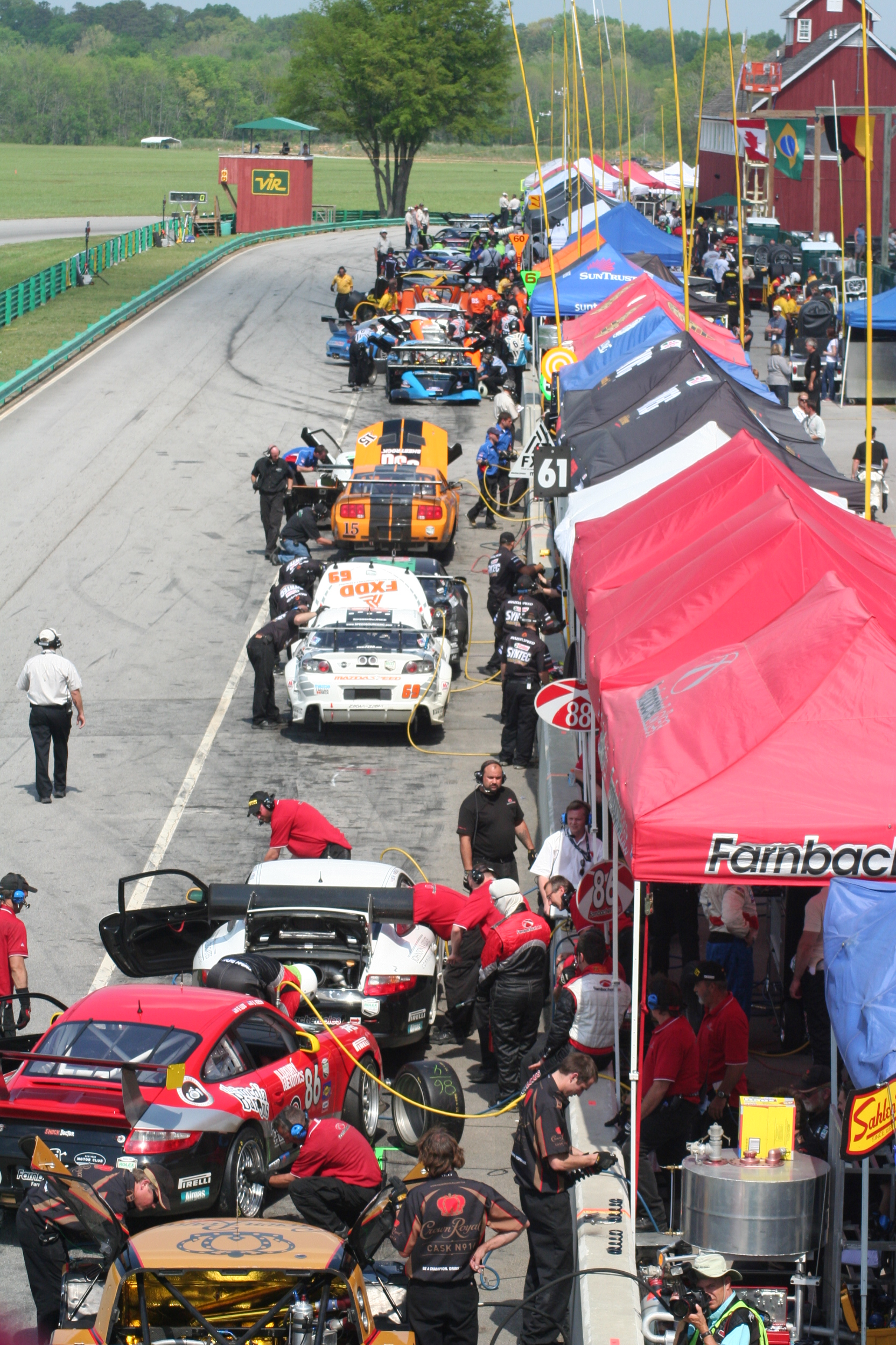 A picture of the pit road for Virginia International Raceway. Shot by "The Daredevil" at the 2008 Grand Am event at Virginia International Raceway